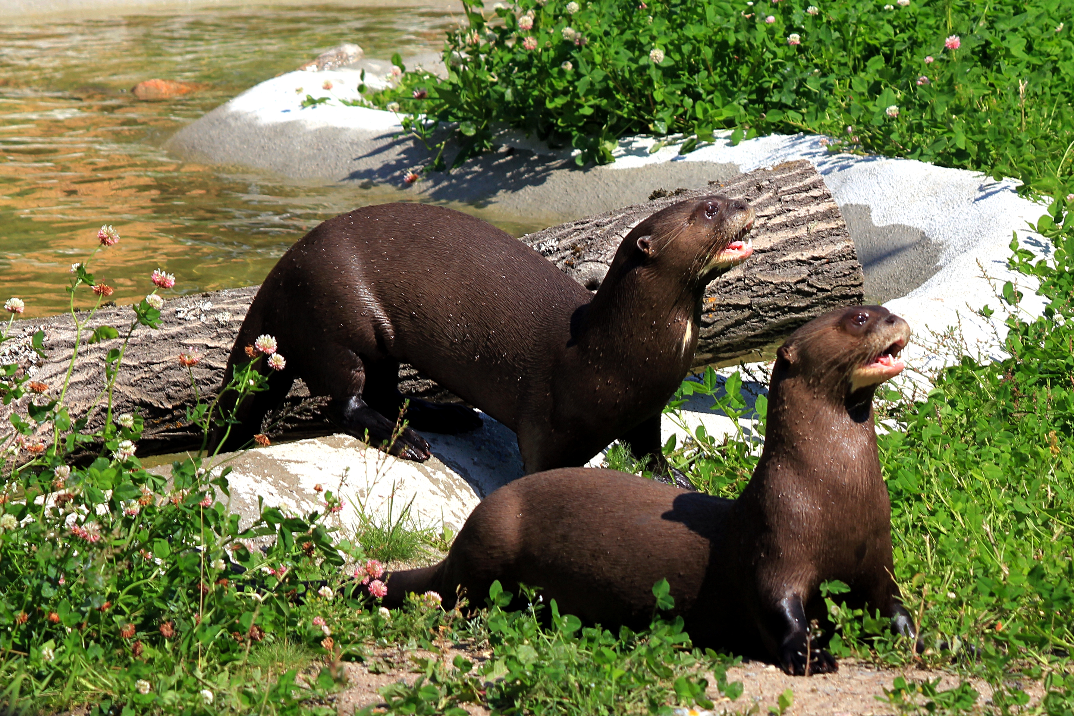 The two giant otters (Pteronura brasiliensis) Alua and Yumbo at Parken Zoo, Eskilstuna, Sweden